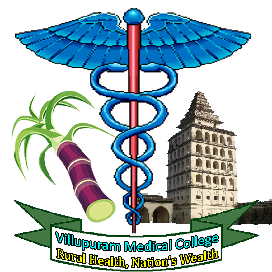 Coat of Arms / Emblem of Villupuram Meidcal College